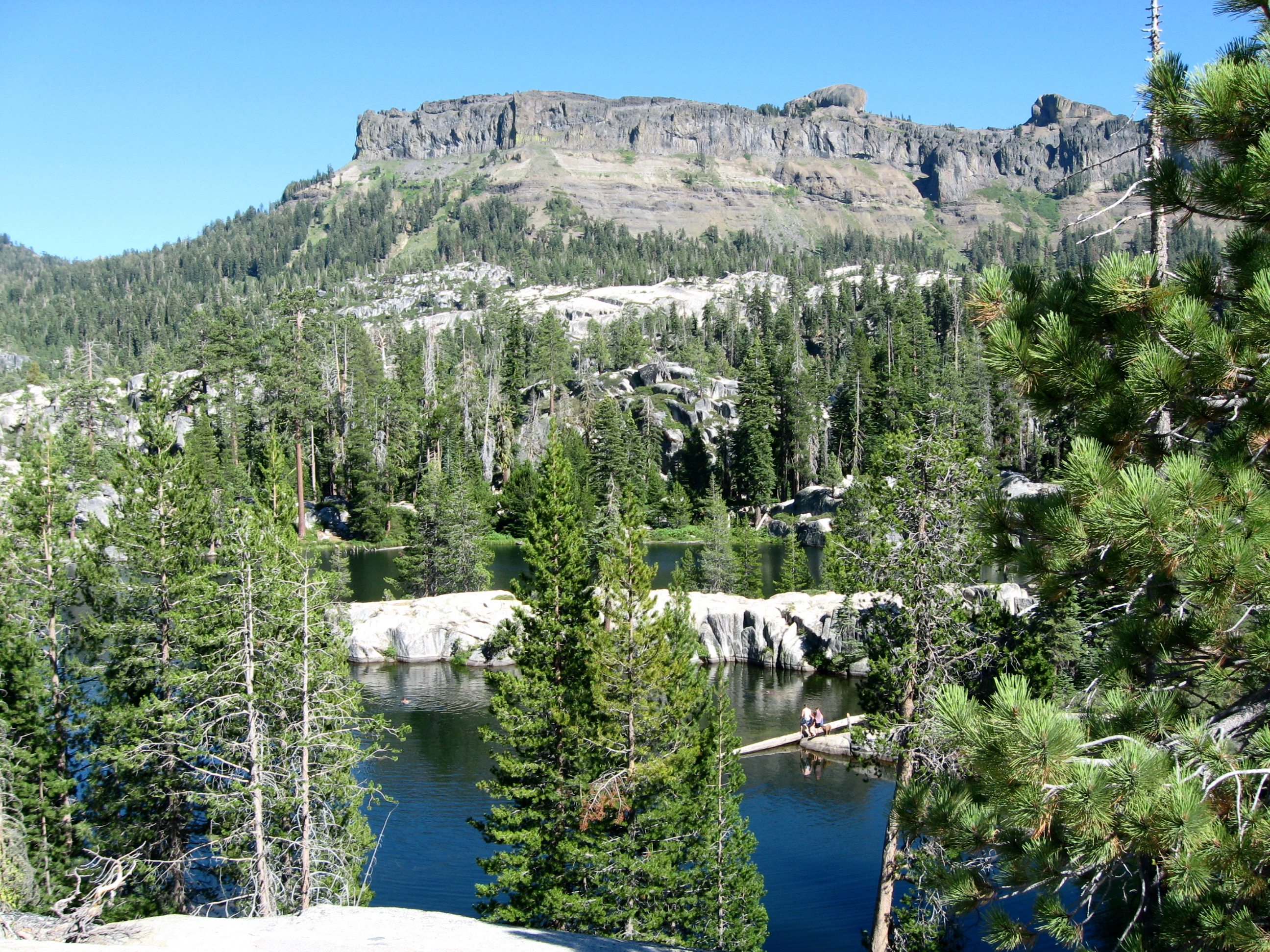 Sword Lake with the Dardanelles Cone in the background